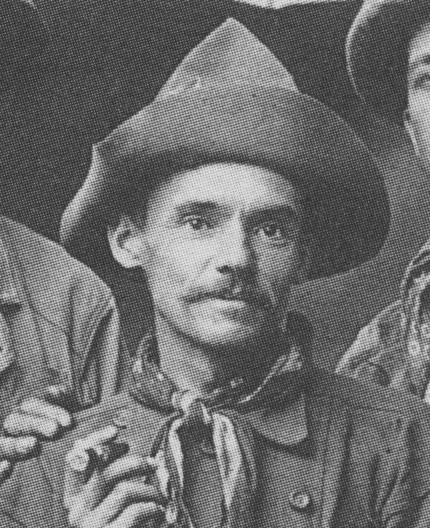 A photo of Joseph N. Leconte in 1894, taken in what is now Kings Canyon National Park, and the end of a trip of exploration of the High Sierra. Photo from Bancroft Library.